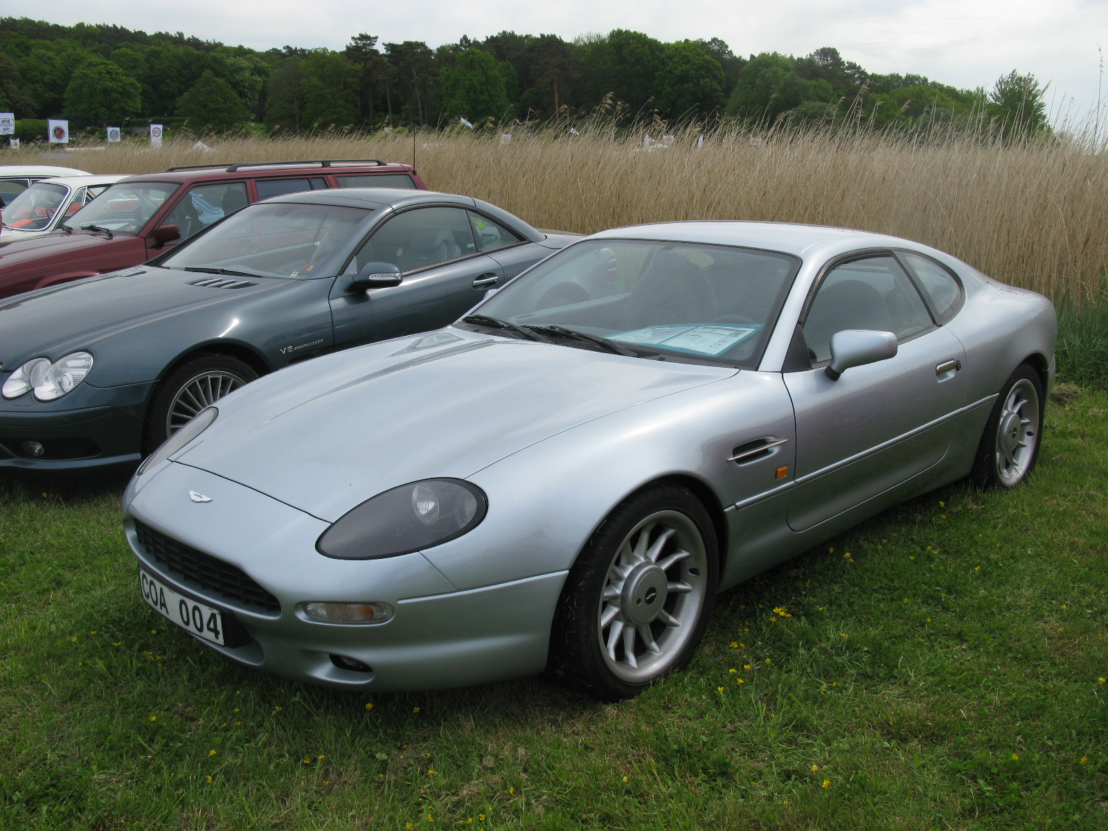 1998 Aston Martin DB7, chassis number AA2115WK102137.